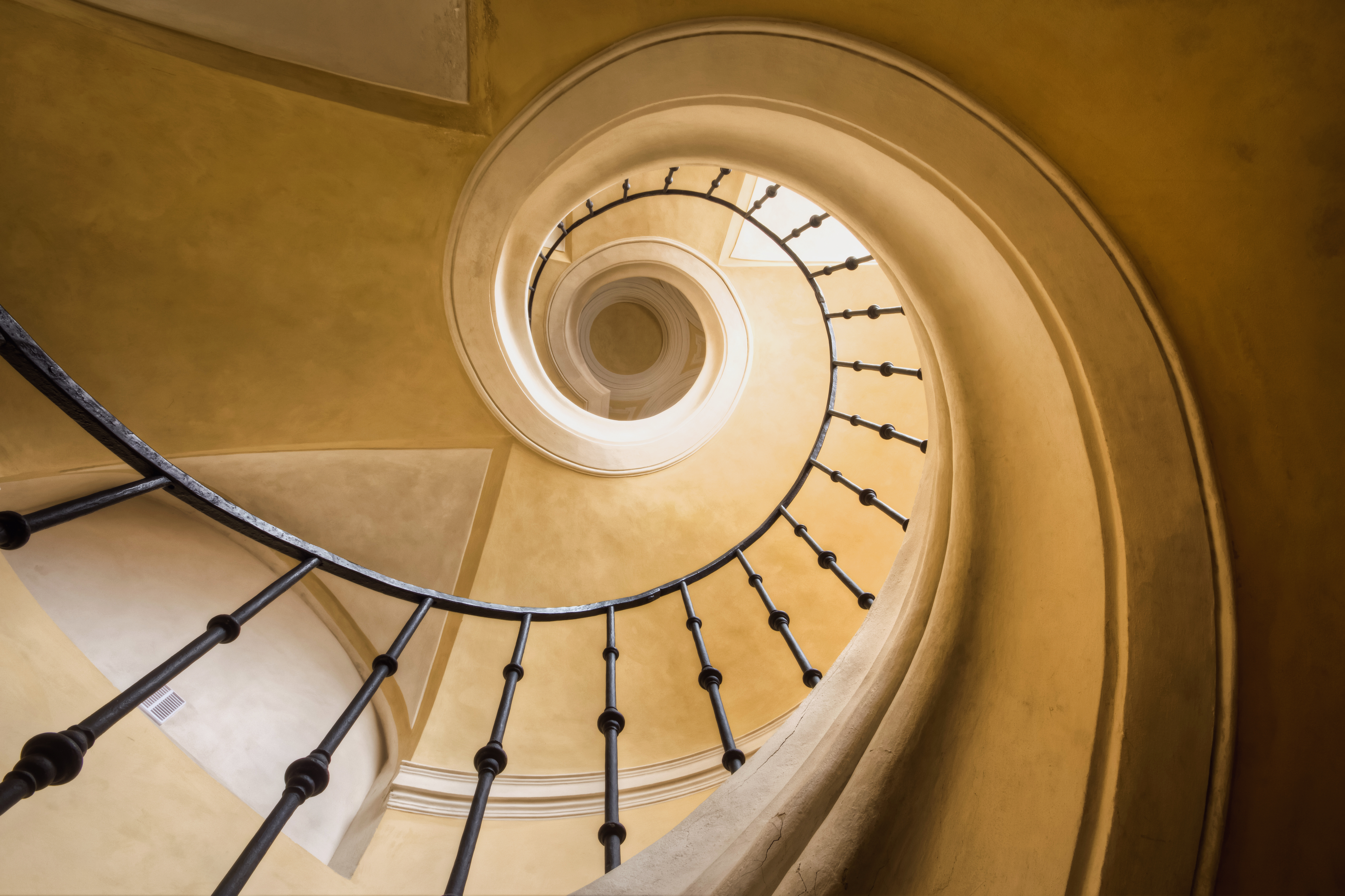 Stairs by Czech architect Jan Blažej Santini-Aichel (1677-1723), Church of the Assumption of Our Lady and Saint John the Baptist, Kutná Hora, Czech Republic